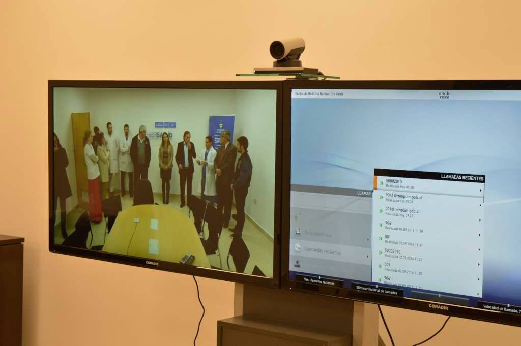 Scientific Teleconference System at the Molecular & Nuclear Medicine Centre (CEMENER), built by the Entre Ríos Province´s Institute of Social Assitence (IOSPER), the Argentine Republic Comission of Atomic Energy (CNEA), and the Government of the Province of Entre Ríos.